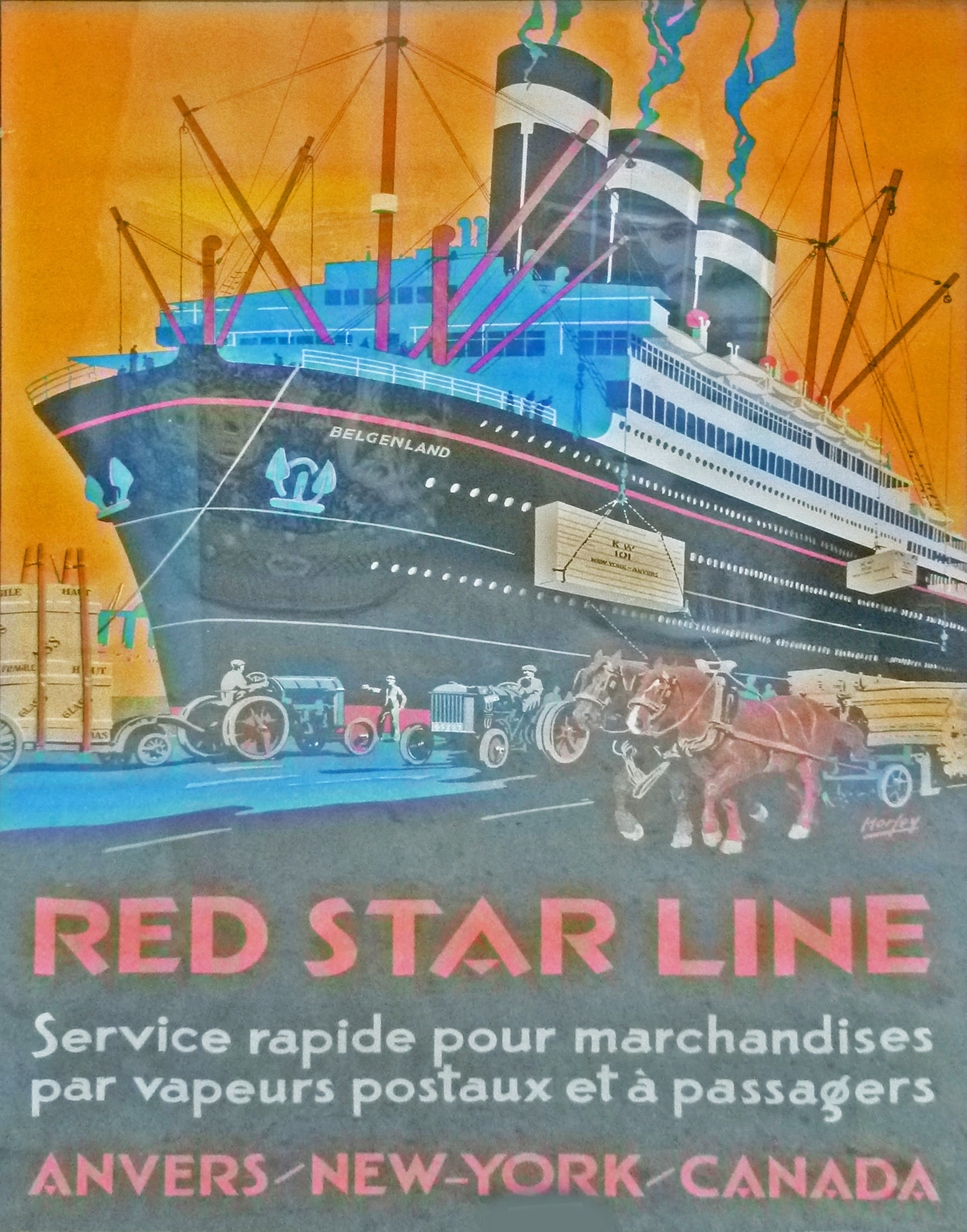 poster Red Star Line door Henri Cassiers (1858-1944), privébezit